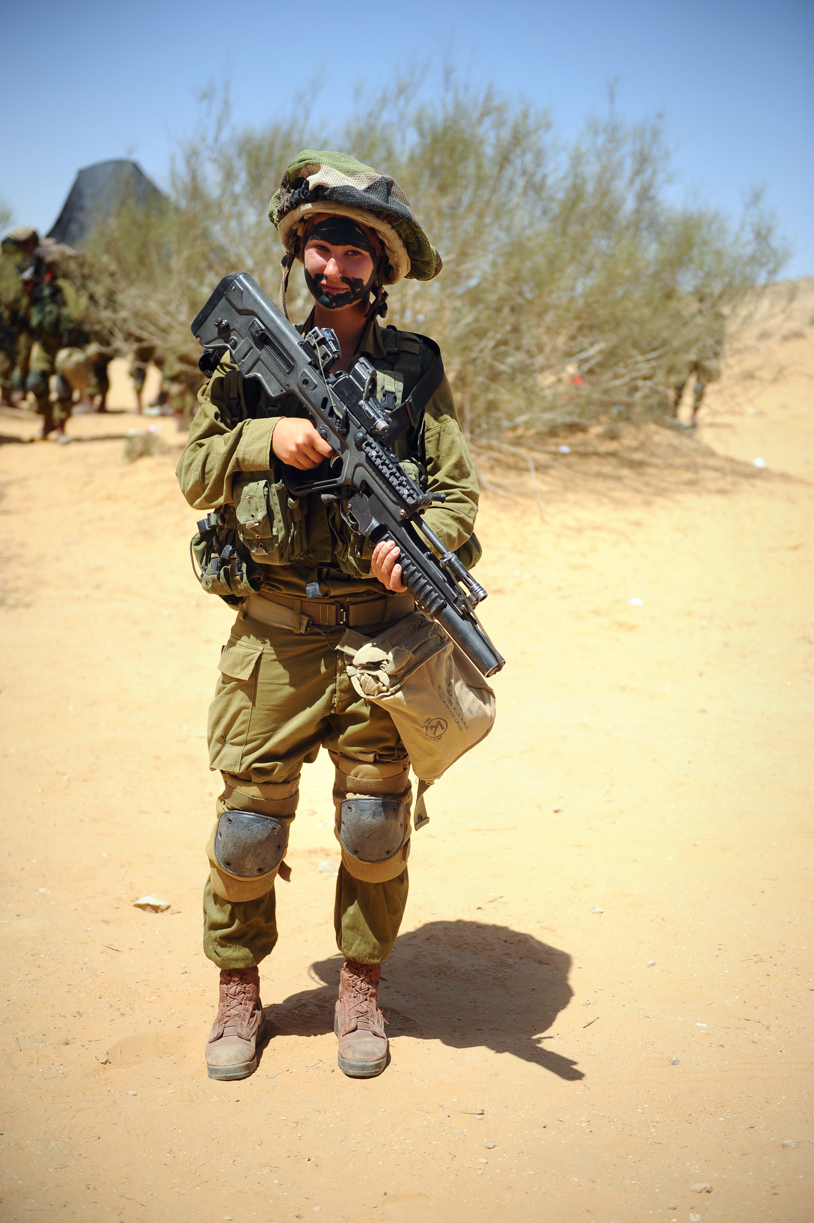 Soldiers of the Caracal co-ed battalion during a platoon exercise in southern Israel.